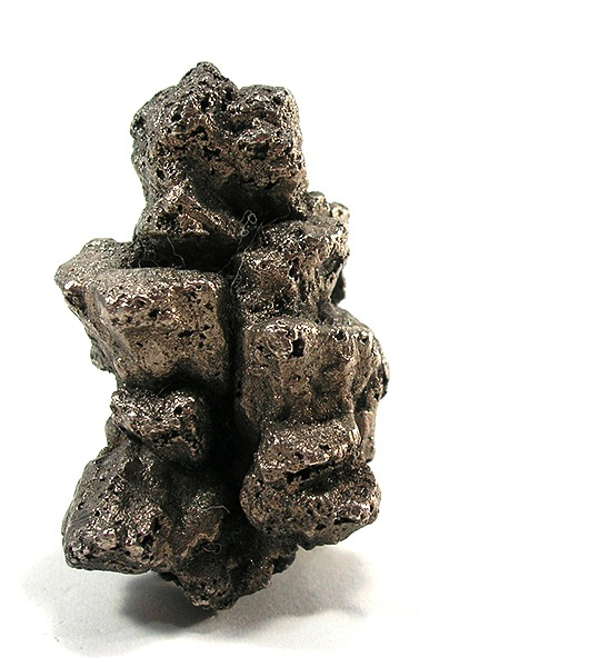 Pyrargyrite, Silver Locality: Zacatecas, Mexico (Locality at ) Size: miniature, 4.1 x 2.4 x 2.4 cm Silver ps. After Pyrargyrite This is a damned near unique specimen, the likes of which I personally have never seen. Logically, the alteration makes sense of course. But in practice, it almost never occurs. The silver is a coating of 1-3 mm, over remnant pyrargyrite....so one could say it is a partial or surface alteration, but a pseudomorph nonetheless. I was able to track down a report of a similar specimen , via a reliable source. But i have NEVER seen one for sale or even in a museum record. And, moreover, this is aesthetic and highly displayable! The old label from Mitch Gunell's Collection notes that he purchased it from the late, great Martin Ehrmann in 1940. Gunnell assembled what is widely considered to have been the most comprehensive pseudomorph collection ever, and this pedigree carries value. But, I feel the mineral is priced on its own merits in this case, with the pedigree as a bonus. 4.1 x 2.4 x 2.4 cm